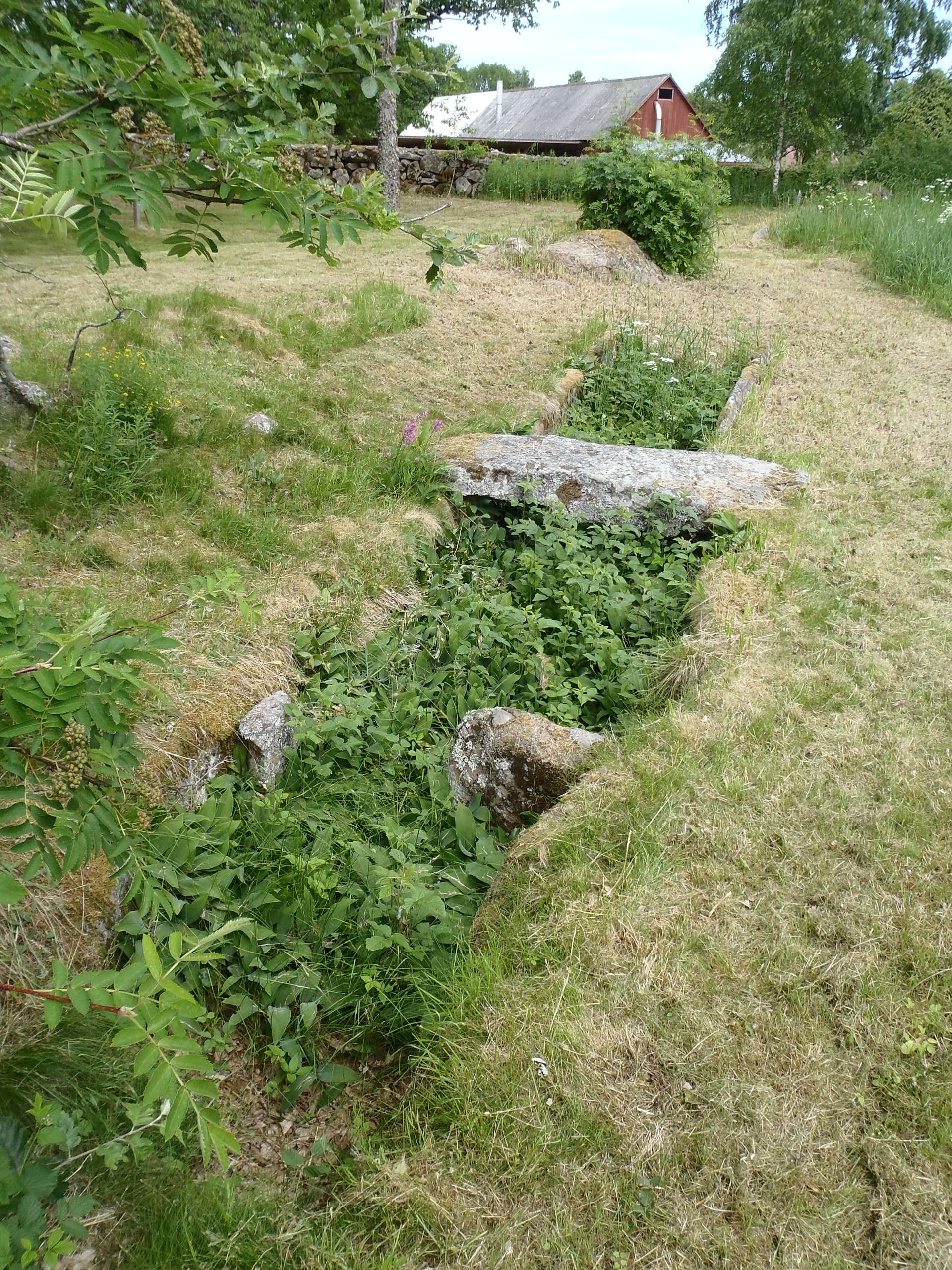 Stone cist about 4000 years old. The 8 meter long cist have an entrace room and a gable slab with a hole. In the cist remains of skeletons, 6 flint daggers and a flint arrowhead were found in 1902.